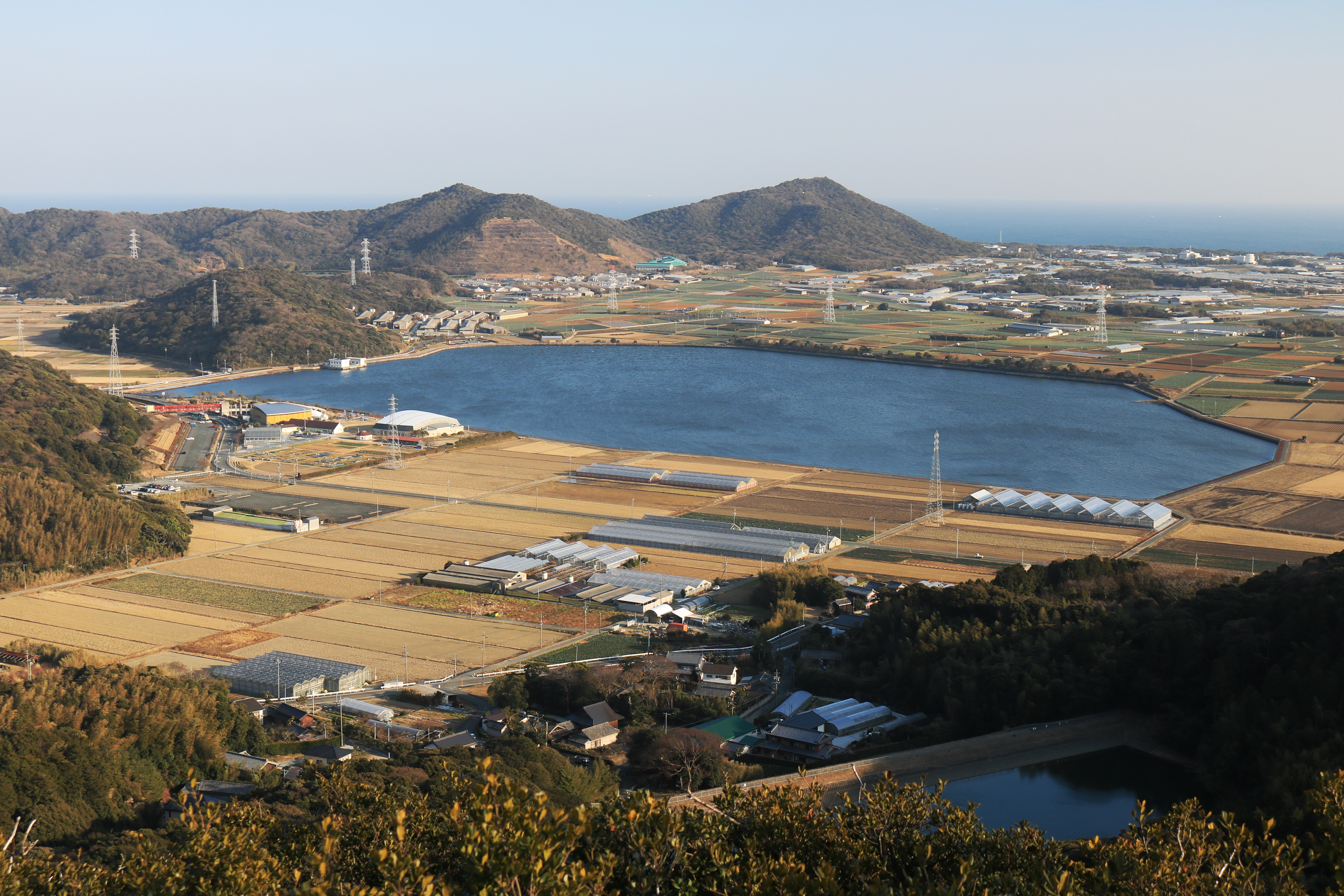 Ashigaike in Tahara, Aichi Prefecture, Japan.